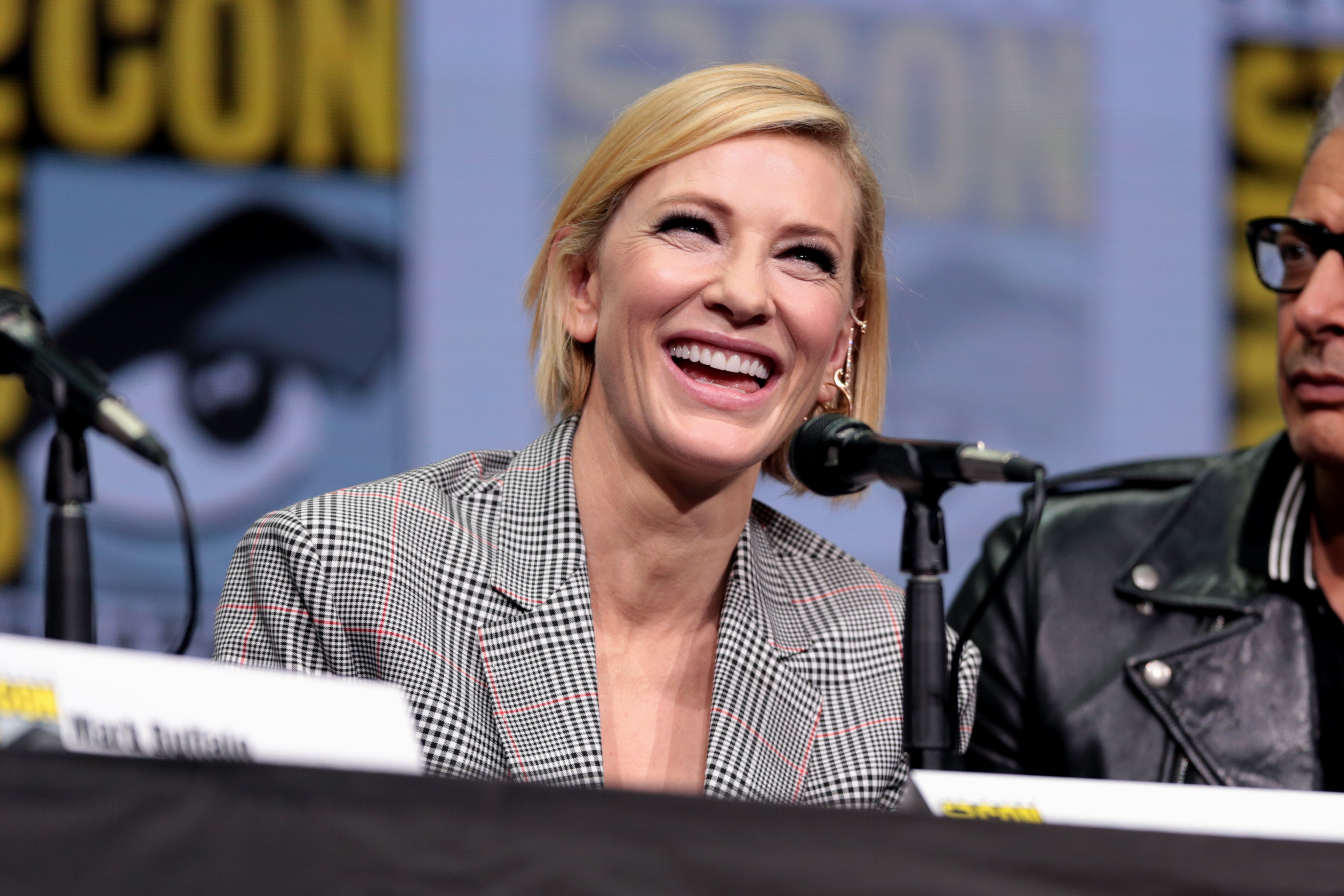 Cate Blanchett speaking at the 2017 San Diego Comic Con International, for "Thor: Ragnarok", at the San Diego Convention Center in San Diego, California.